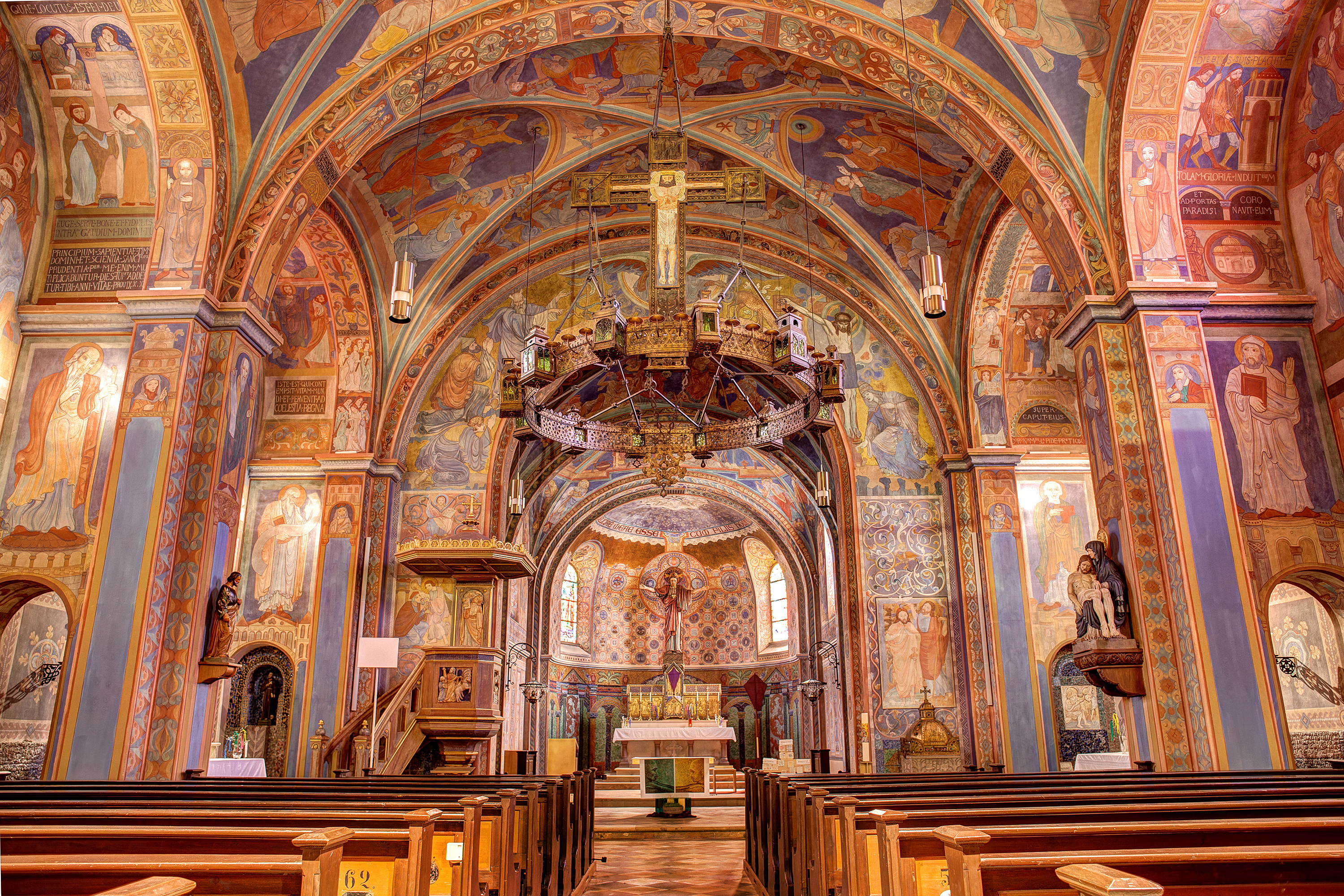 The interior of the catholic church "Herz Jesu Kirche" in Ludwigstal.